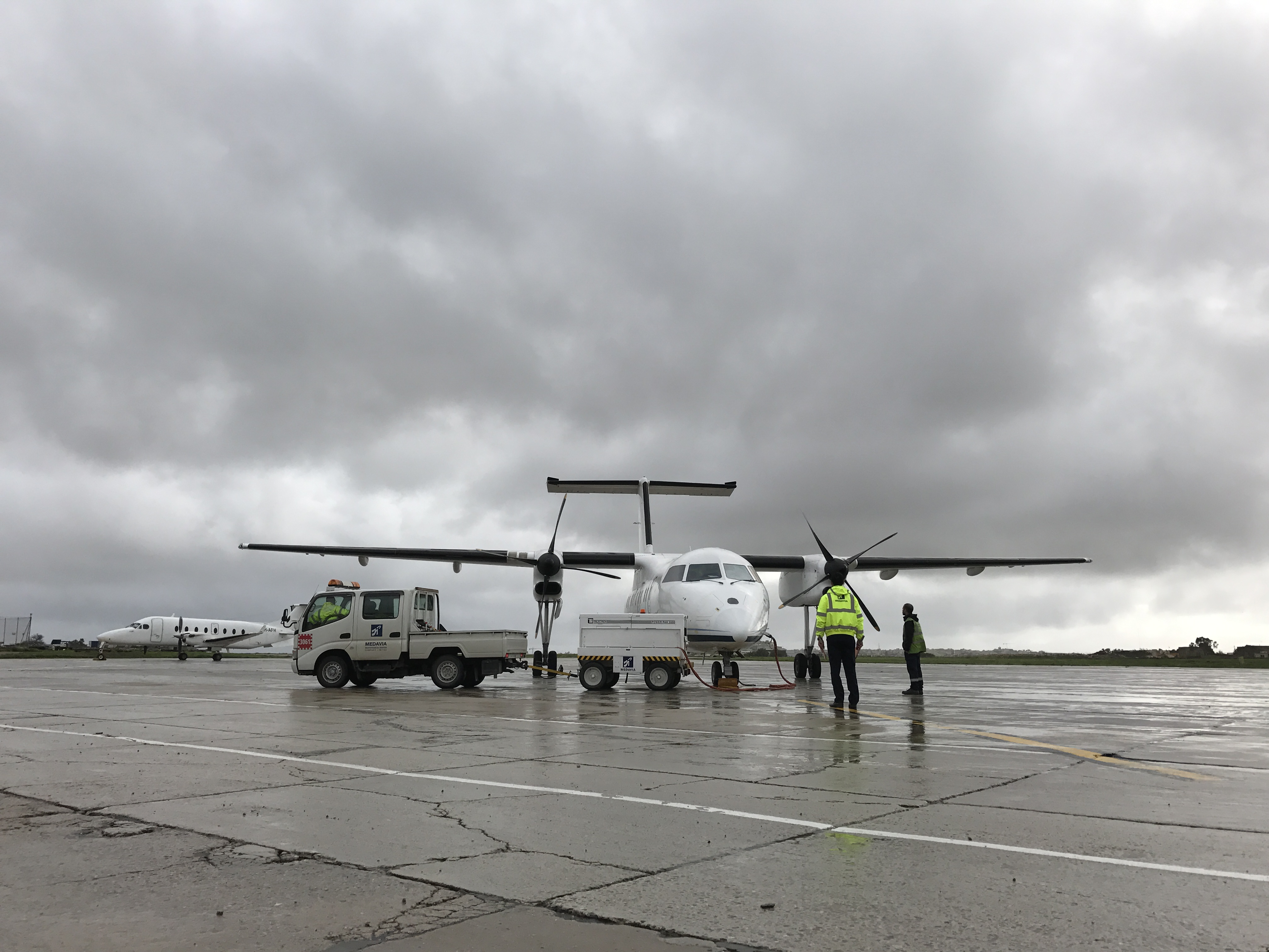 Medavia Dash-8 102, reg. 9H-AEW, Malta International Airport.